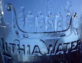 A Vintage Lithia Water Bottle collectable